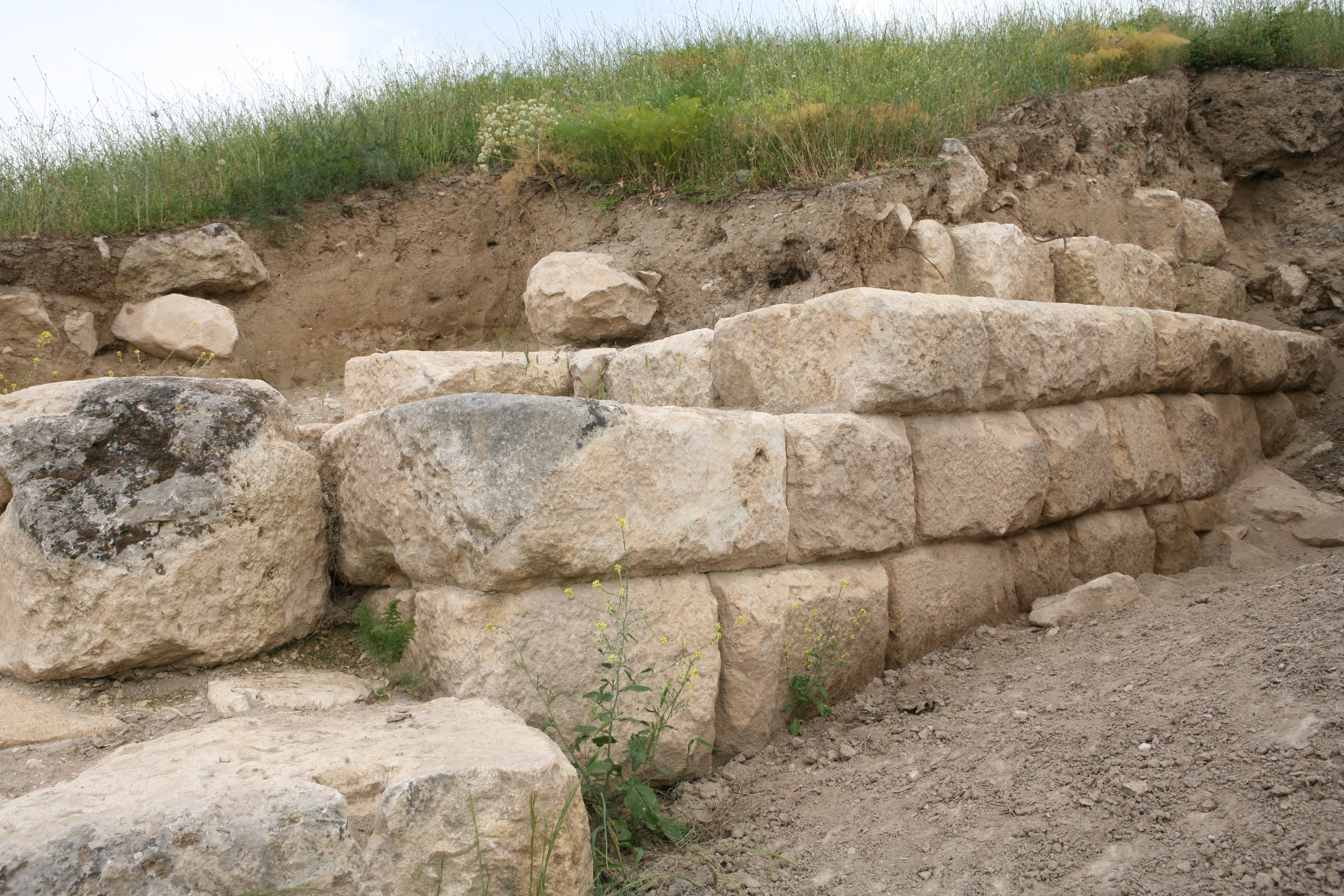 The Building of Ancient Tigranakert